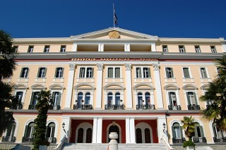 The building of the Ministry for Macedonia and Thrace in Thessaloniki, Greece's second-largest city.